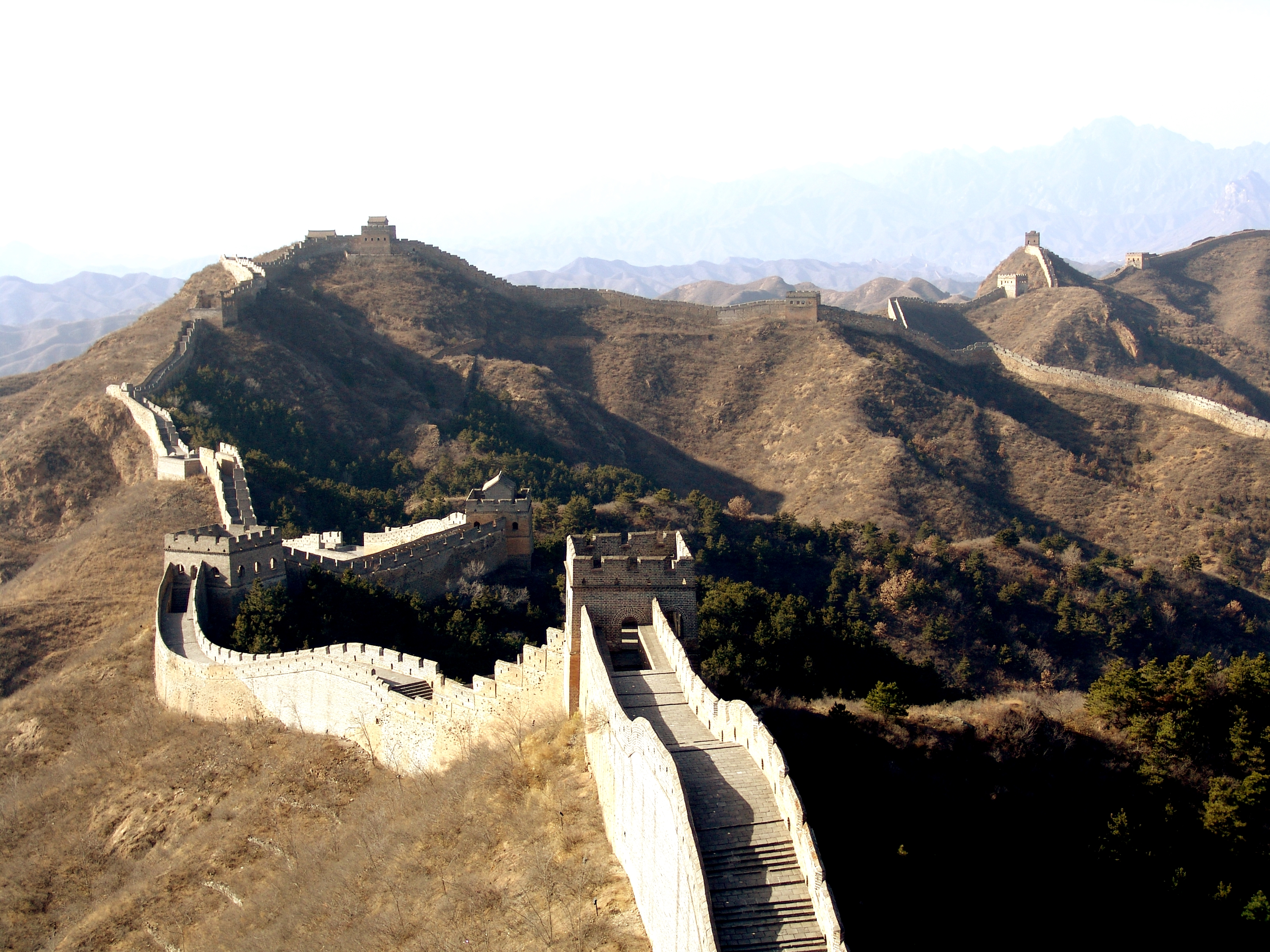 A section of the Great Wall of China between Simatai and Jinshanling